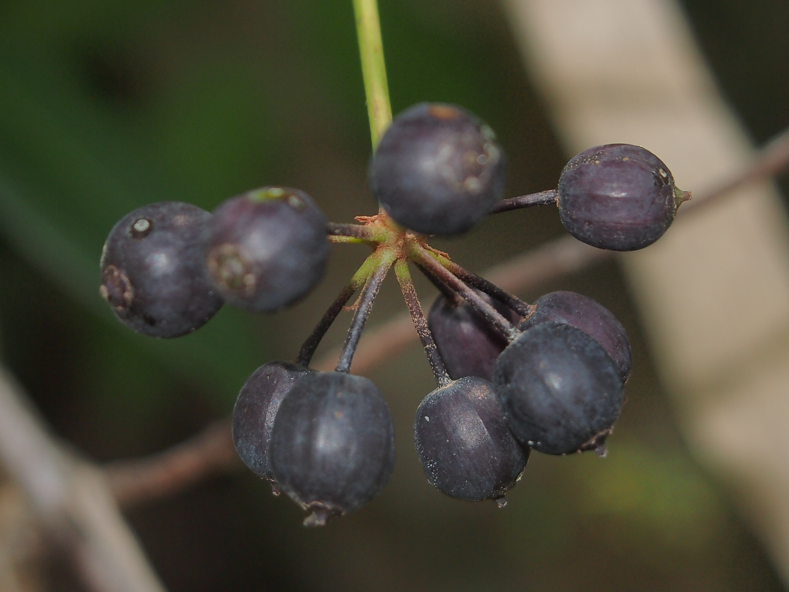 Polyscias australiana fruit